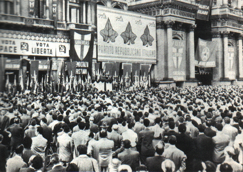 Political campaign in Milan related to italian elections in 1948.